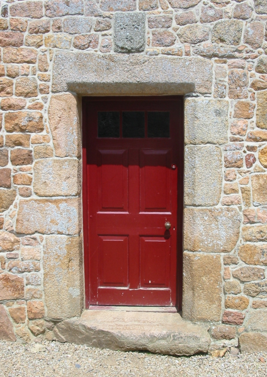 Doorway at Hamptonne in Jersey. Photo taken by Man vyi with Canon PowerShot A40 on 11/6/2005